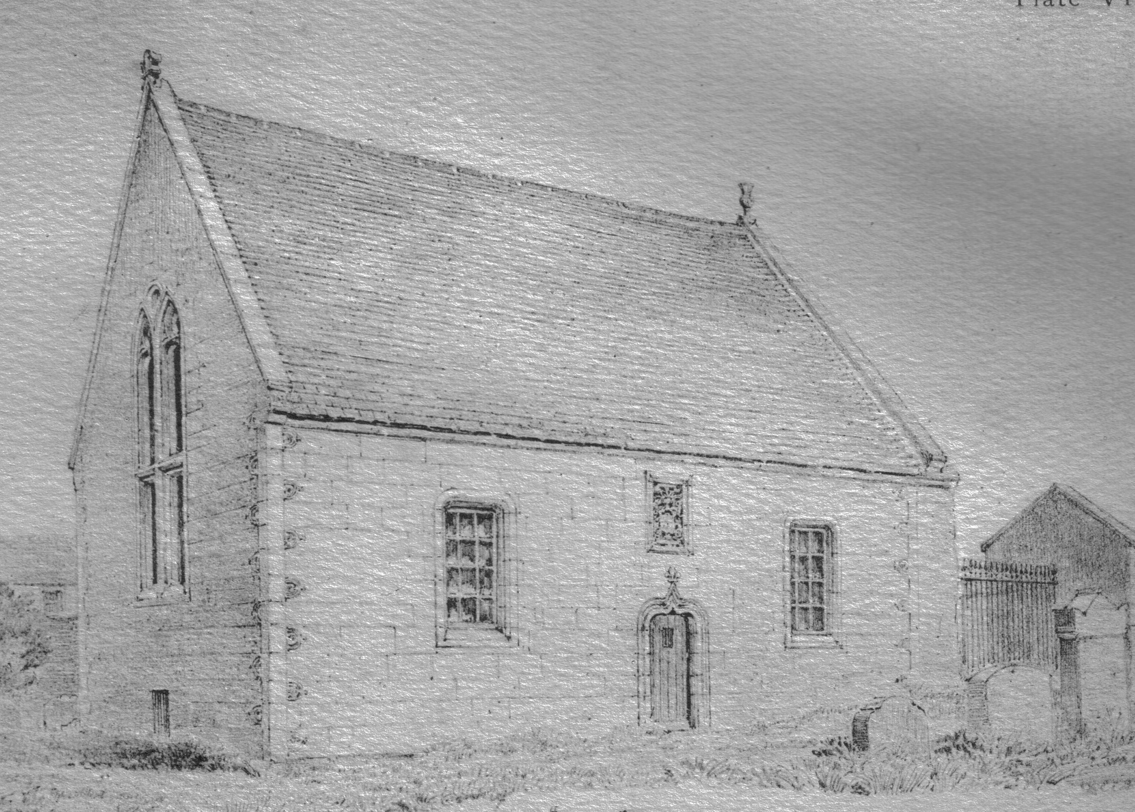 Exterior of the Skelmorlie Aisle at Largs, North Ayrshire, Scotland.